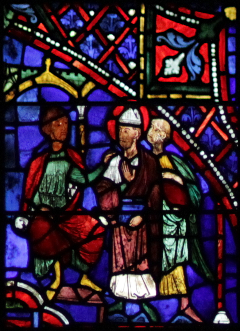 Fragment of File:Chartres 36 -Corrected.jpg - Life of St Apollinaris